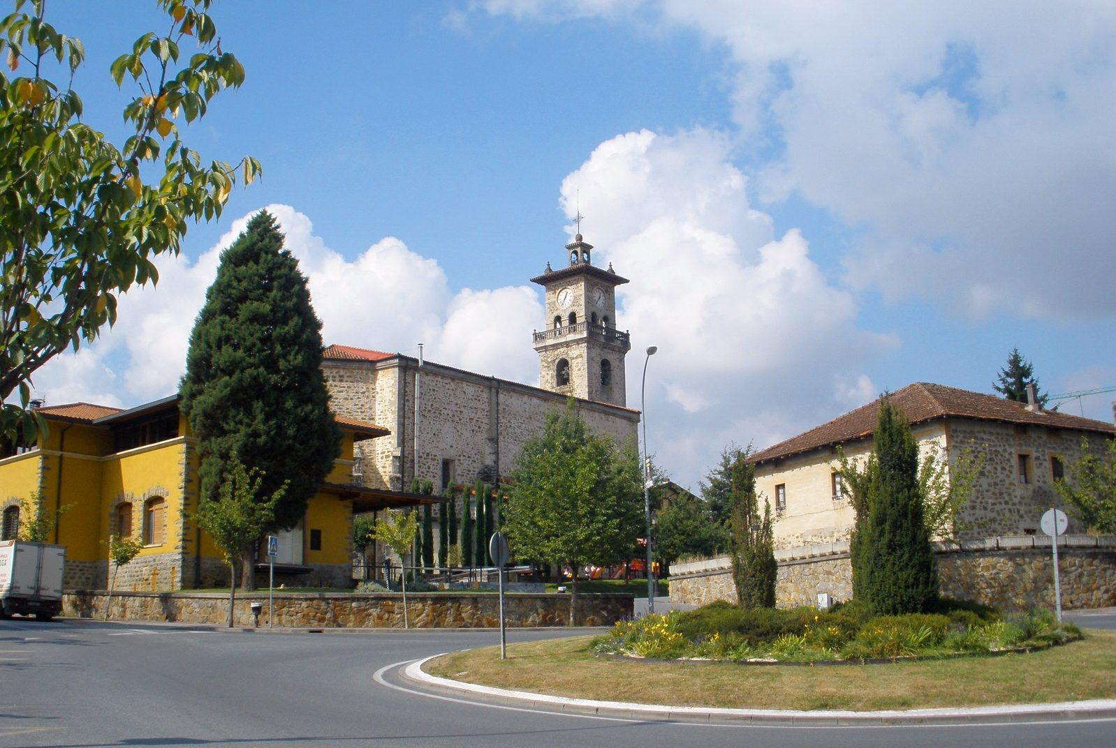 Amurrio (Álava)